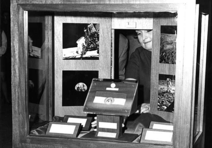 Dedication of Moon Rock Display, Missouri State Capitol, March 17, 1970 (MSA) Collection Name: Gerald R. Massie Photograph Collection Photographer/Studio: Massie, Gerald; Owens, Harold (Whitey) Description: Mrs. Warren E. Hearnes placing Moon Rock Fragments in display case. Coverage: United States – Missouri – Cole – Jefferson City Date: March 17, 1970 Rights: Copyright is in the public domain. Credit: Courtesy of Missouri State Archives Image Number: 11-85_0011 Institution: Missouri State Archives